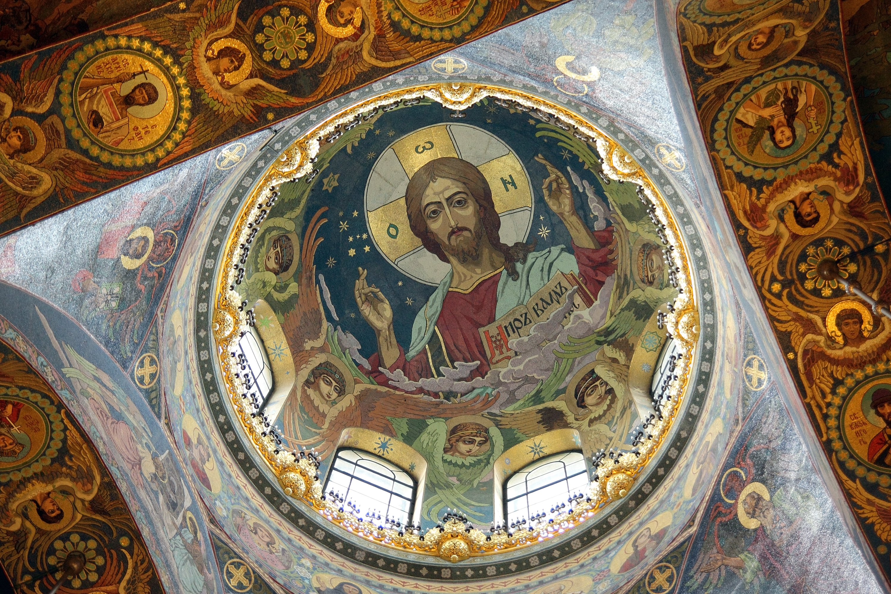 Interior of an onion dome of Church of the Savior on Spilled Blood in St. Petersburg, Russia.